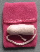 reusable cloth tampon and pouch